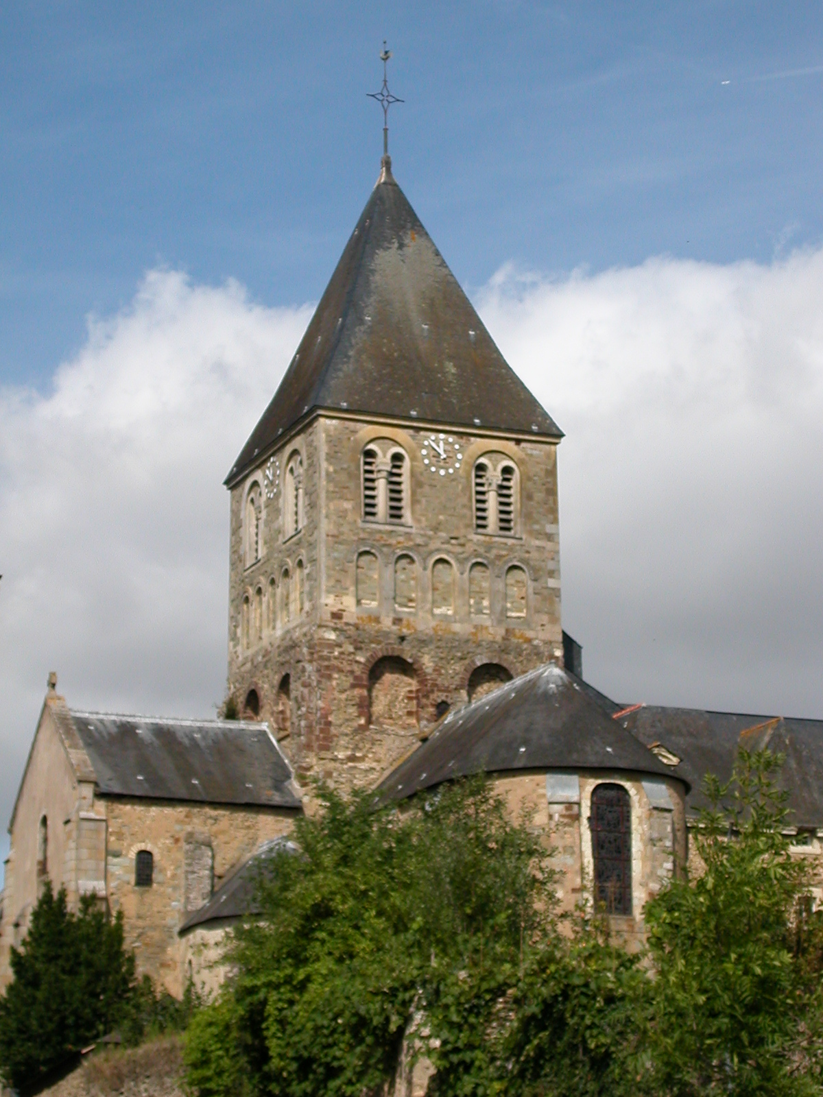 Chevet of Saint-Jean church in Château-Gontier (XIth century)